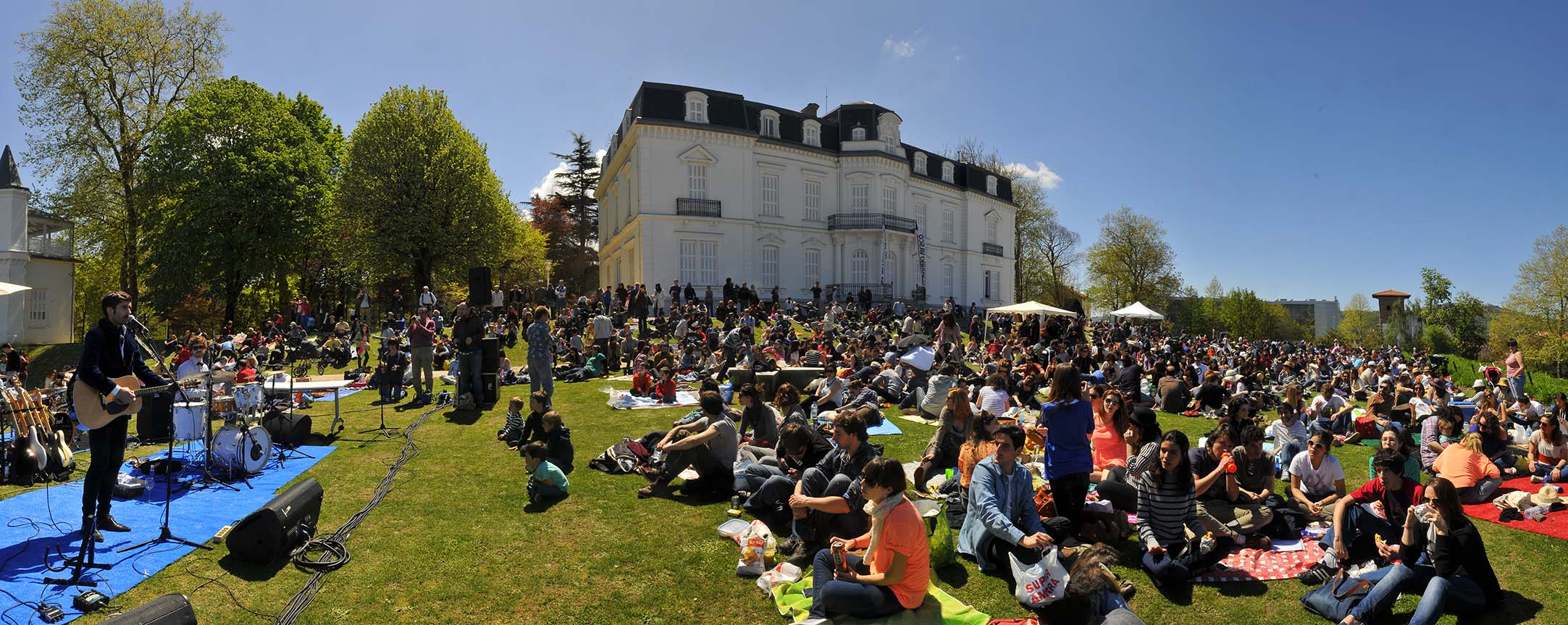 Musika Parkean festival in Aiete.